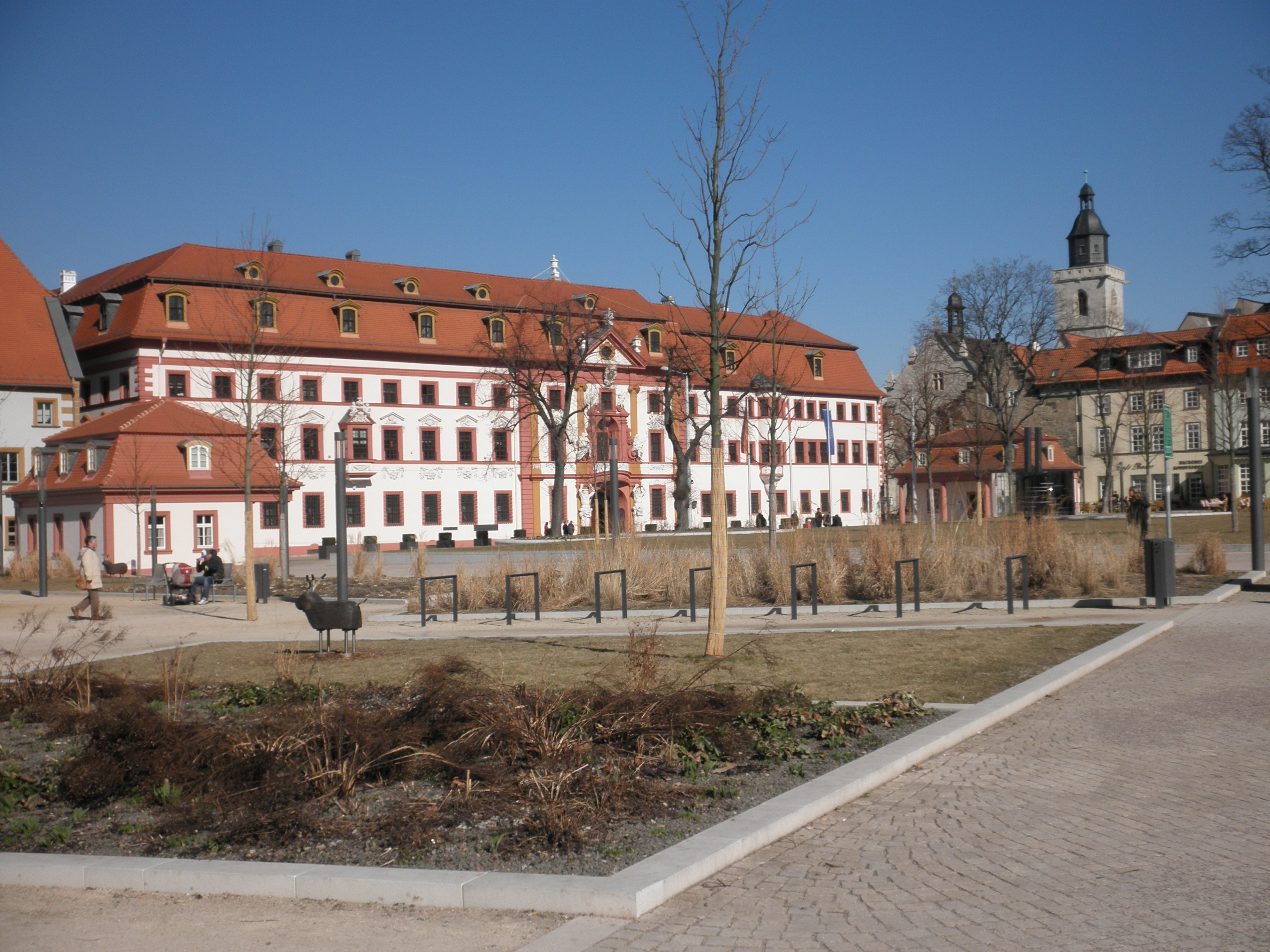 Park Hirschgarten in Erfurt in Thuringia